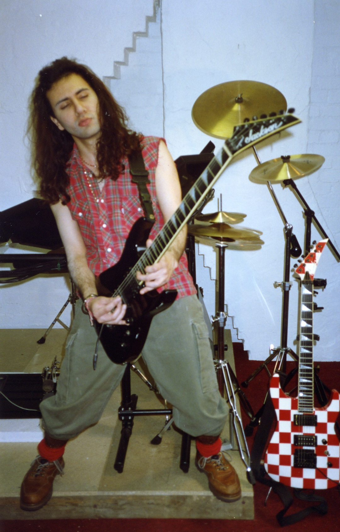 British guitarist Dave Sharman